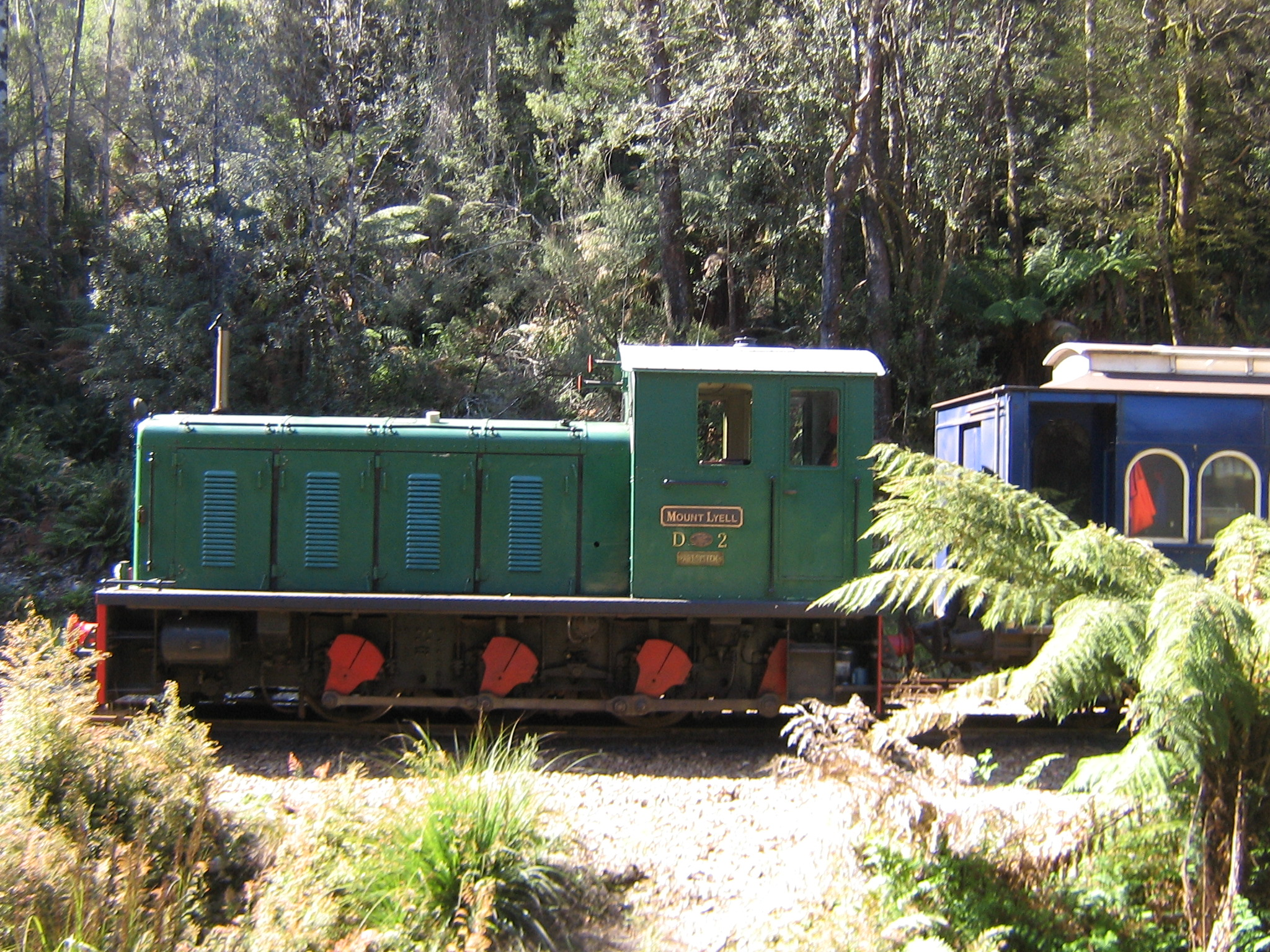 Diesel Abt locomotive at Teepookana on the West Coast Wilderness Railway, formerly the Mount Lyell Mining and Railway Company